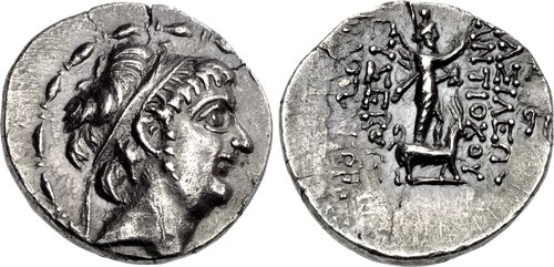 Coin of Antiochos X Eusebes Philopator. Circa 94-88 BC. AR Drachm (18mm, 3.87 g, 12h). Tarsos mint. Diademed head right, diadem ends falling straight behind; all within fillet border / [Β]ΑΣΙΛΕΩΣ ΑΝΤΙΟΧΟΥ on right, ΕΥΣΕΒΟΥΣ [Φ]ΙΛΟΠΑΤΟΡ[ΟΣ] on left, Sandan standing right, wearing a polos and with a bow and quiver over his shoulder, holding double-headed ax in left hand and flower in right, on the back of horned lion-griffin right; to outer right, N above ΠP monogram. SC 2426A = SCADS33 (same dies). Extremely rare, only the second recorded example.